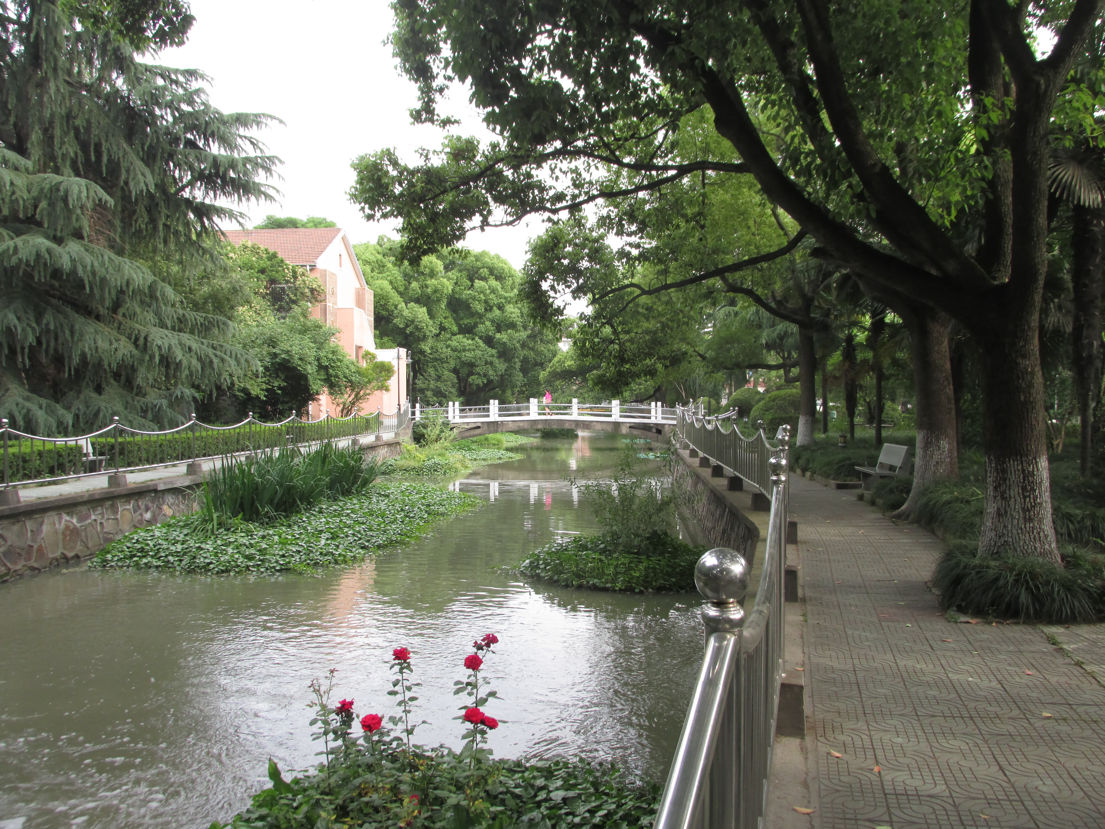 Small river scenery on Xuhui campus of East China University of Science and Technology